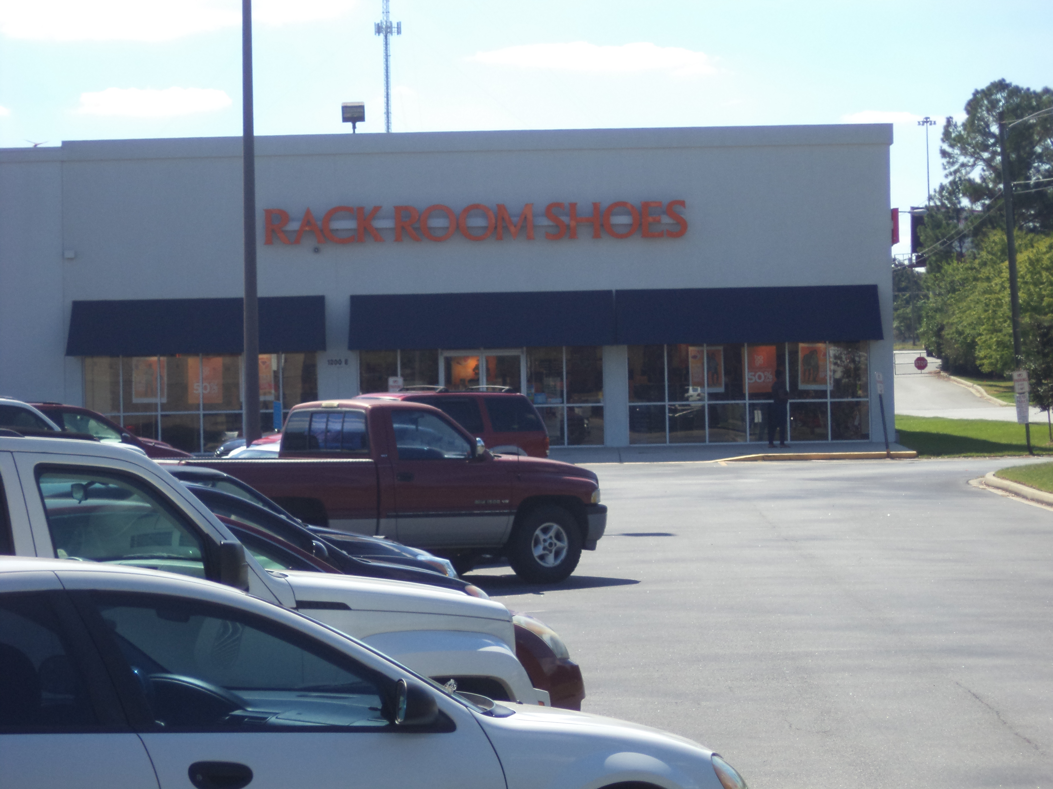 Valdosta, Lowndes County, Georgia